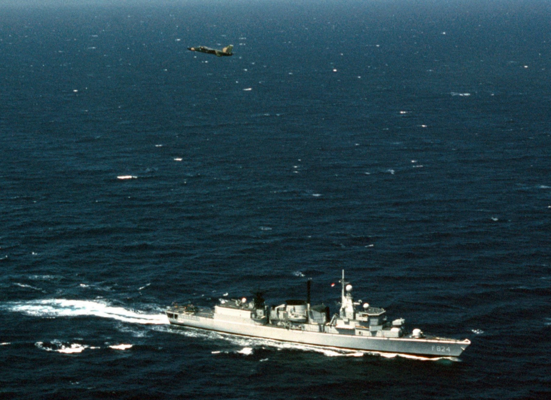 A U.S. Air Force General Dynamics F-111F aircraft from the 495th Tactical Fighter Squadron, 48th Tactical Fighter Wing, makes a low-level pass over the Dutch frigate HNLMS Bloys van Treslong (F824) during exercise "Open Gate '89". "Open Gate" was a Joint Chiefs of Staff/NATO exercise designed to simulate air and sea power tactics required to keep the Straits of Gibraltar open during a crisis.